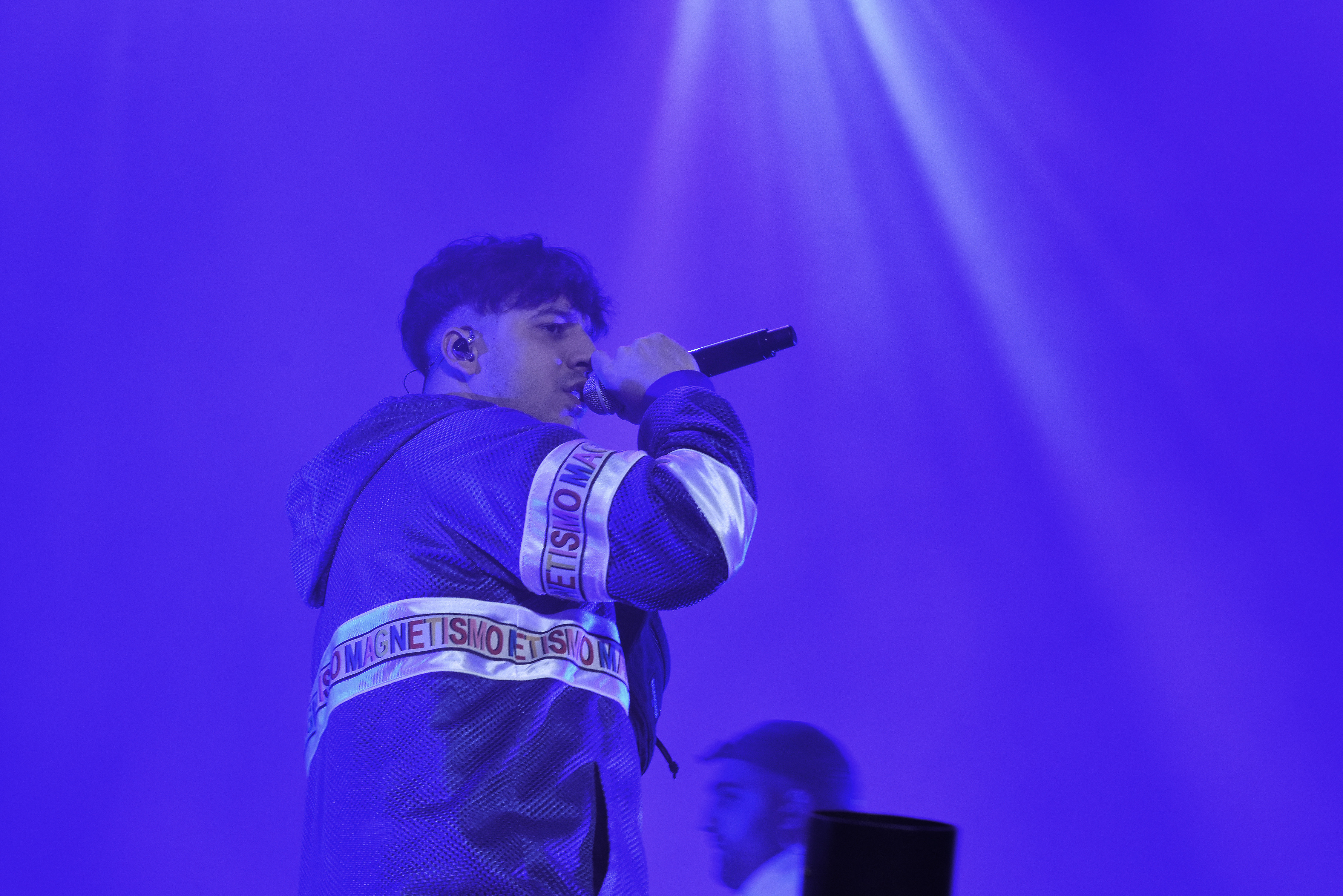 German Rapper Ufo361 at Sputnik Spring Break 2018